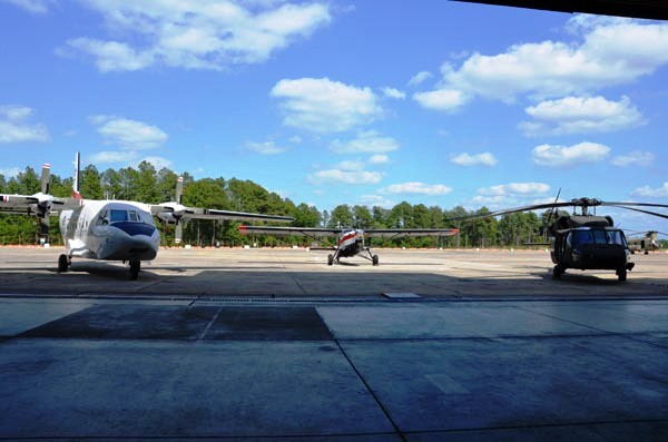 United States Army Special Operations Aviation Command's USASOC Flight Company (UFC) aircraft static display, from left to right: C-212, UV-20, and UH-60